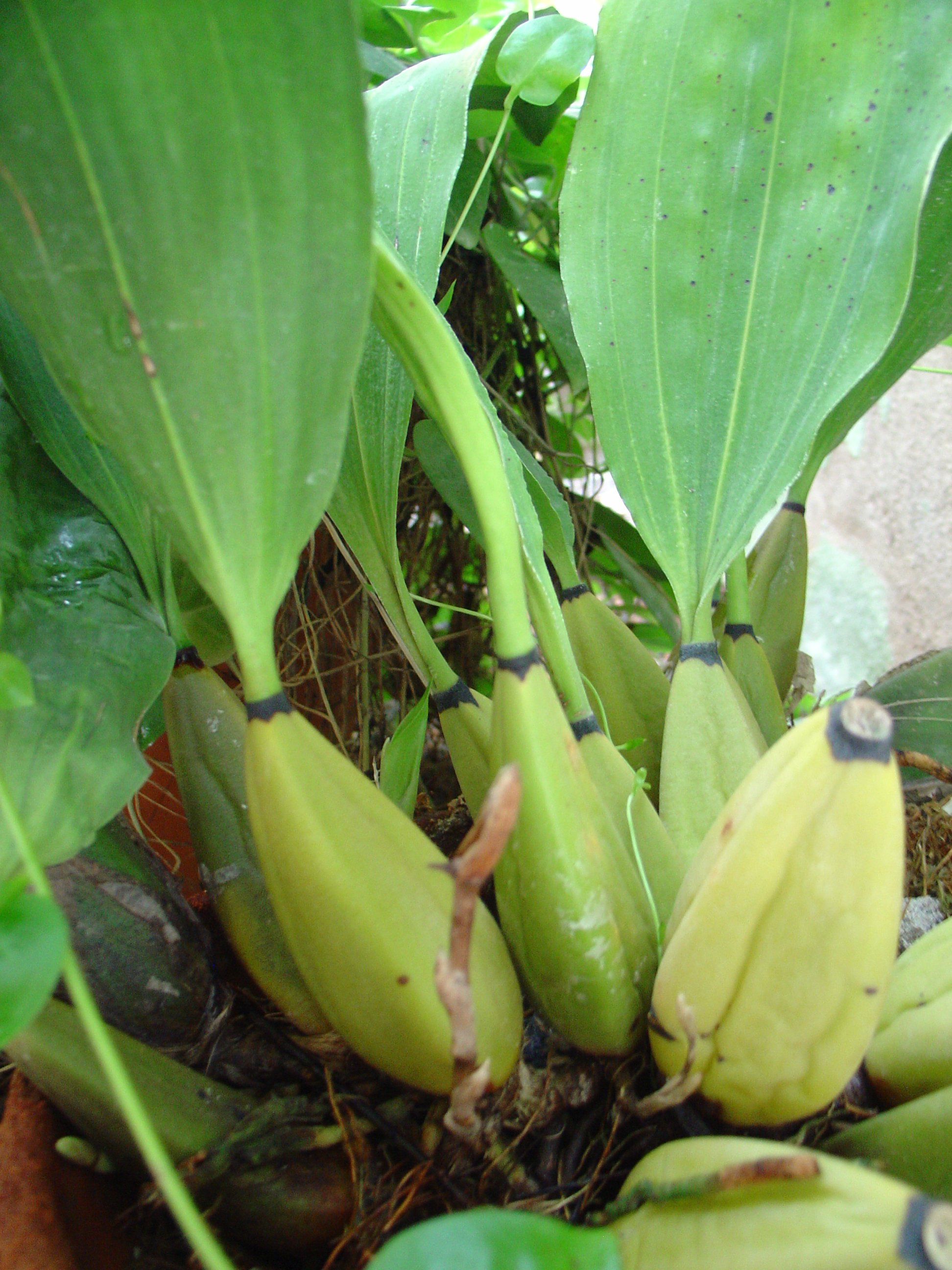 Bifrenaria harrisoniae. University of Helsinki Botanical Garden, Finland.